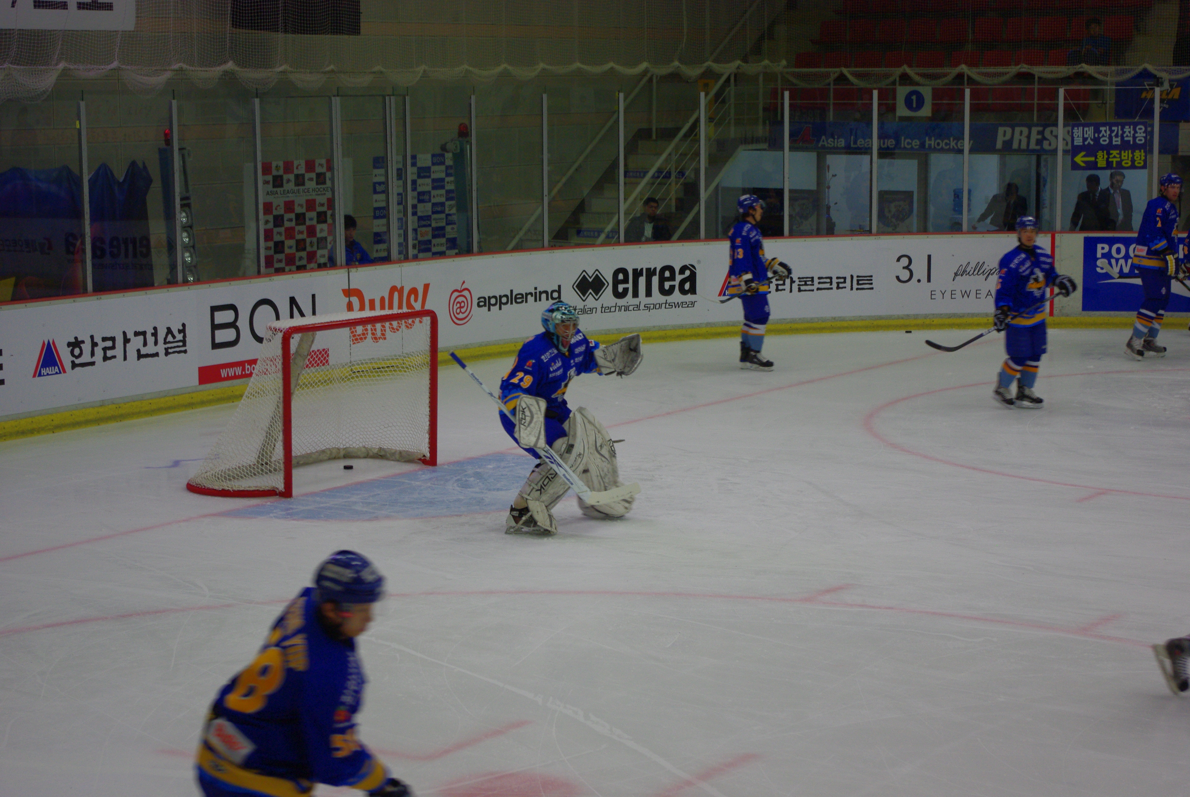 Rookie Yoo Sung-je during warm-up for the Anyang Halla